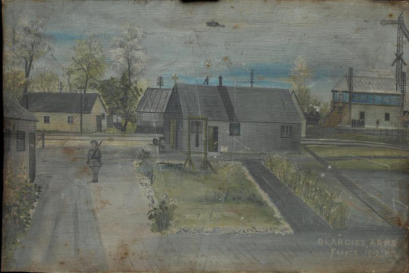 Blargies, Arms, France 1917 image: A naive painting on a tin sheet showing a British Army prison camp by a railway line. There is a soldier bearing a rifle in the left of the composition and railway signals in the upper right.